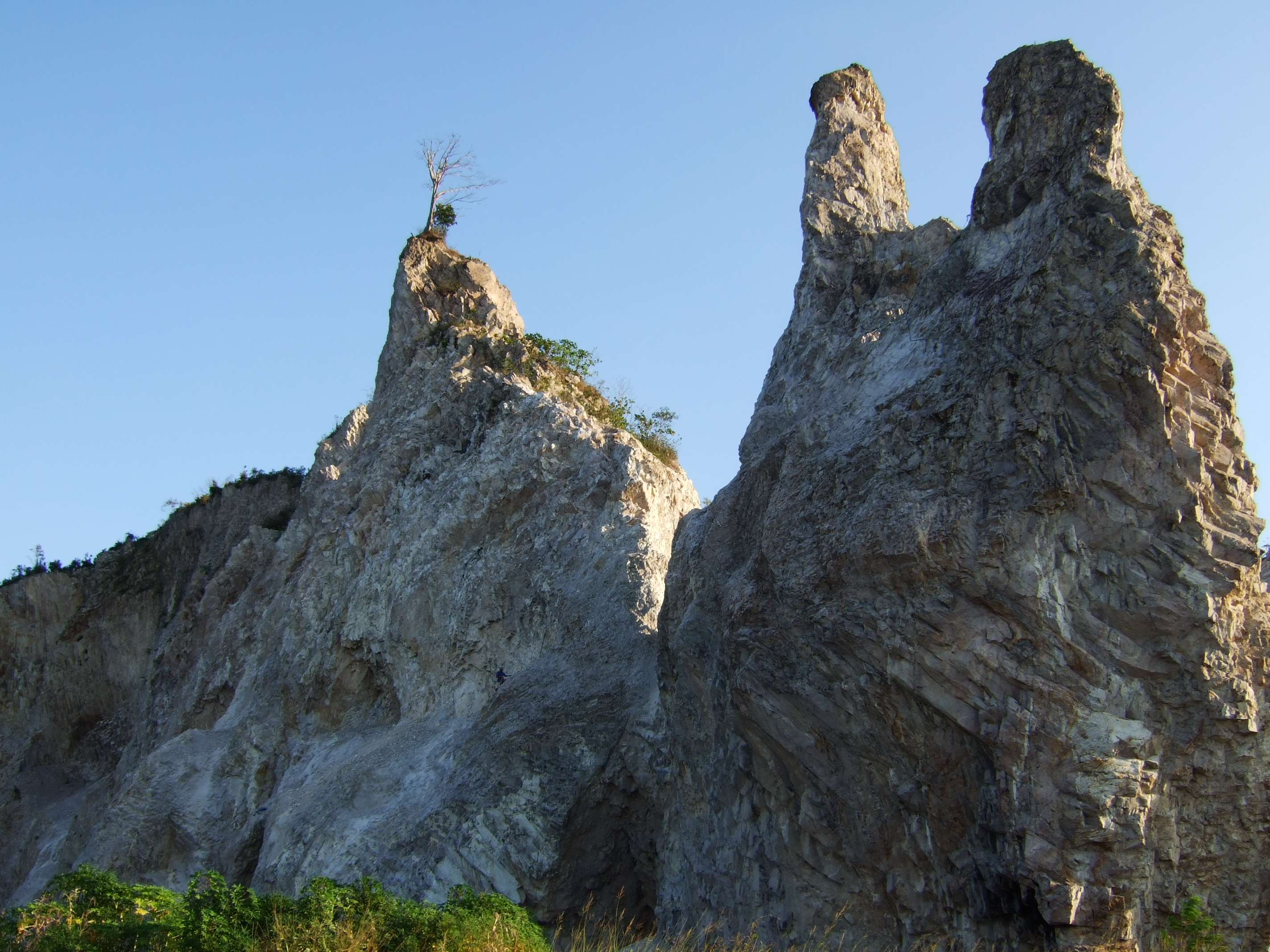 Mount Kunyit, Bandar Lampung, Indonesia